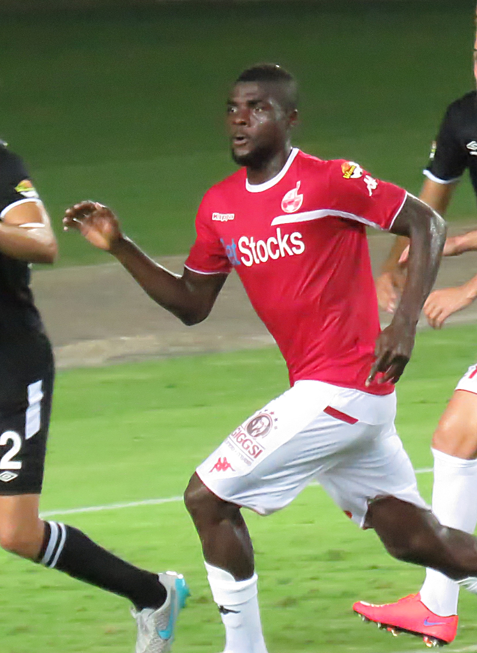 Hapoel Ra'anana vs. Hapoel Be'er Sheva - September 12, 2015